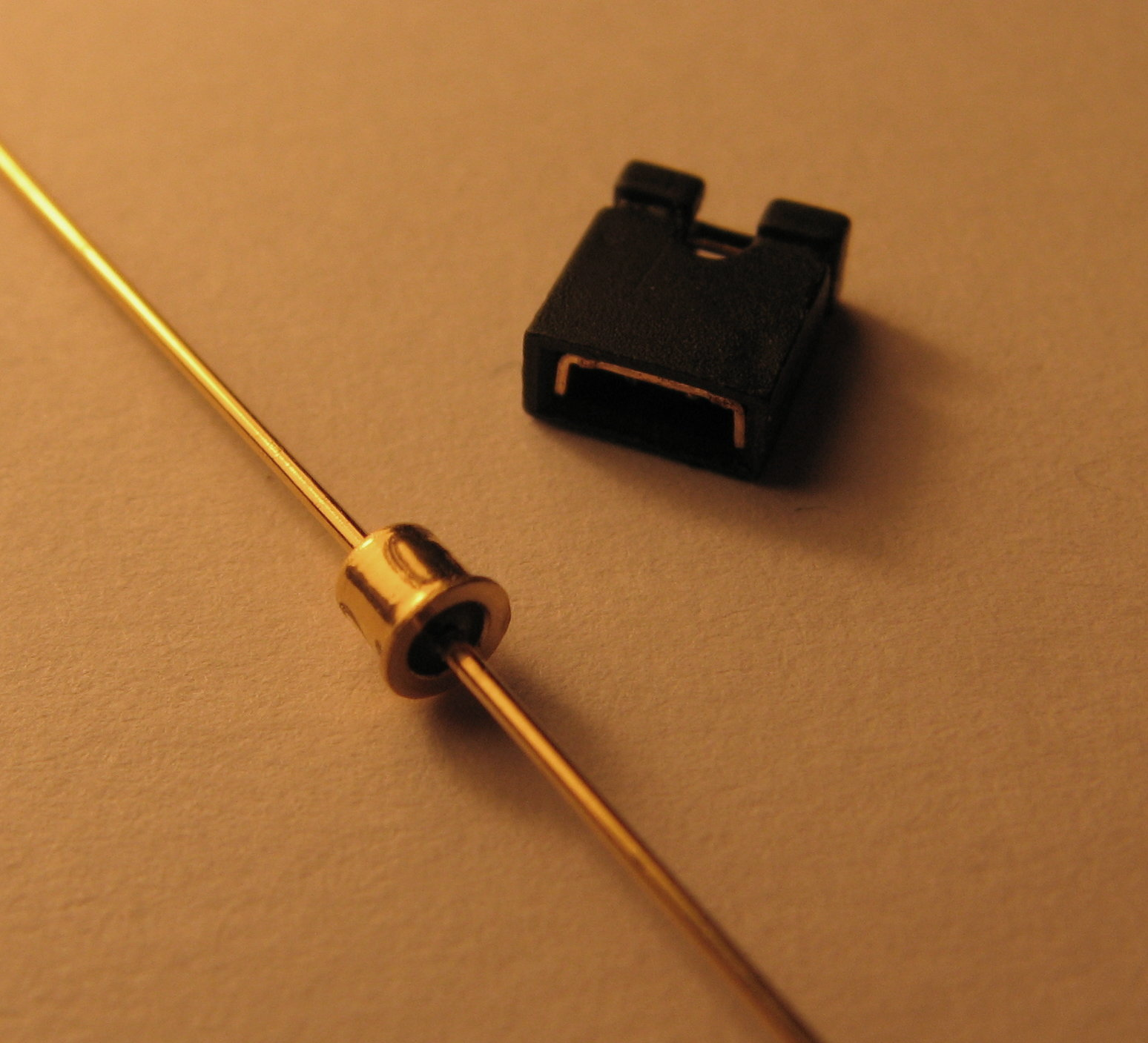 1N3716 tunnel diode made by GE, with 0.1" jumper in the background for scale